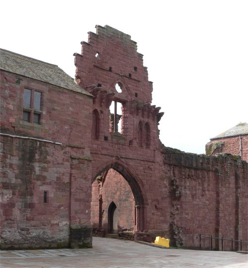 The gatehouse of Arbroath Abbey, Scotland